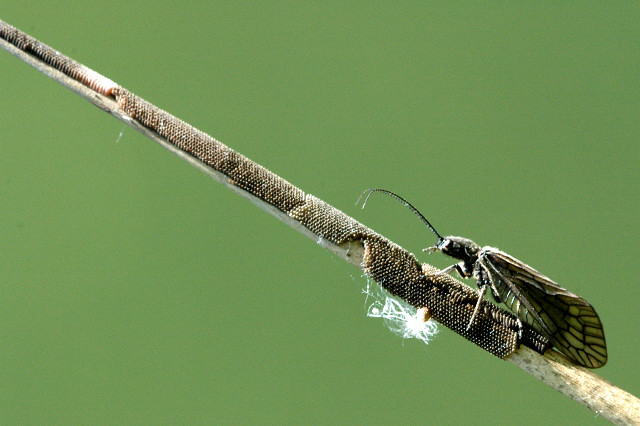 Picture taken in Commanster, Belgian High Ardennes . Species: Sialis lutaria female laying eggs